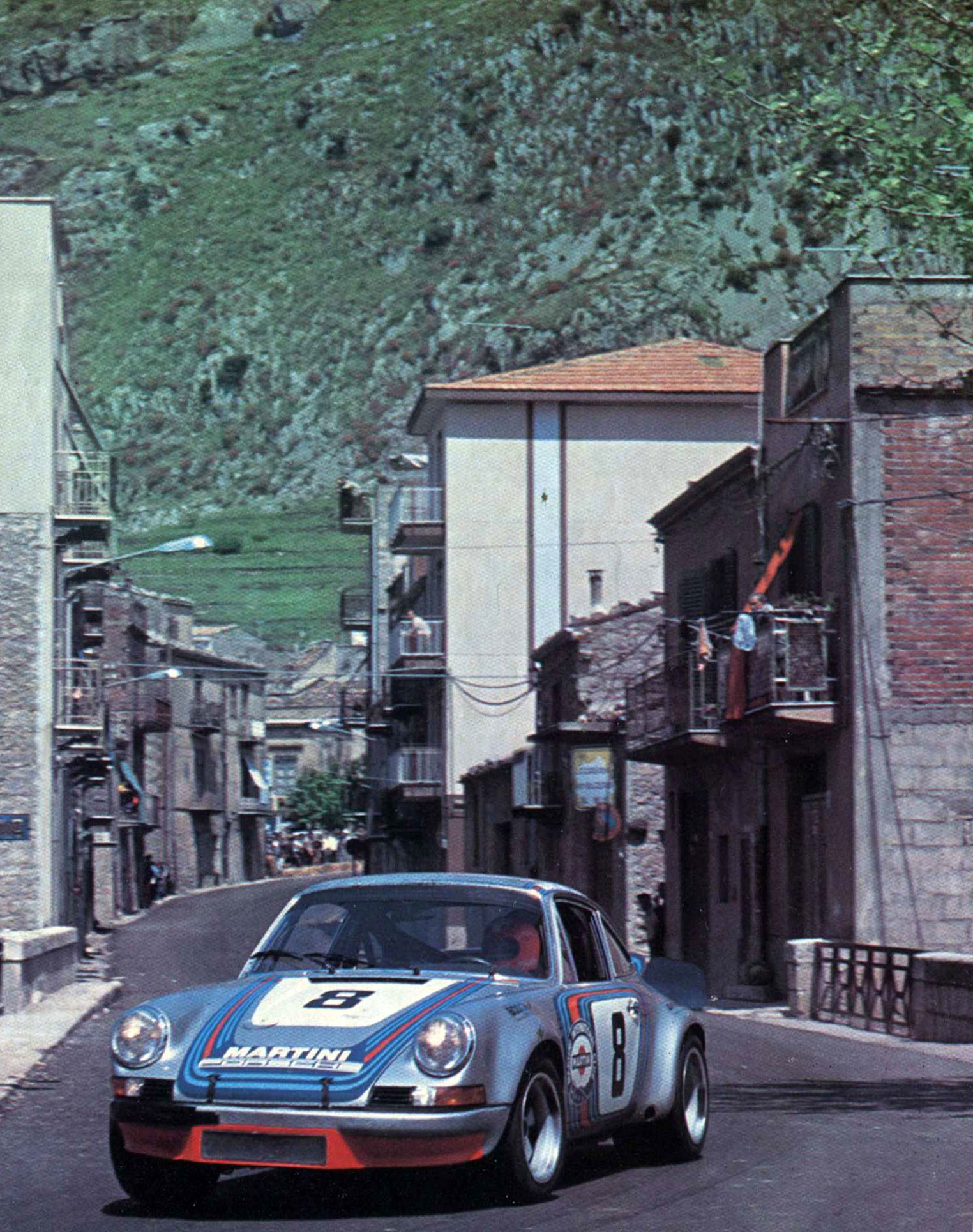 Province of Palermo (Sicily, Italy), "Piccolo Madonie" road circuit, May 13, 1973. The Porsche 911 Carrera RSR 3.0 (Group 5) of Martini Racing Team at the 1973 Targa Florio.